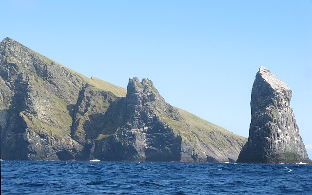 Stac Lì and Boreray Stac Lee's sharp end seen when crossing to Soay. The triangular peak is the west top of Mullach an Eilean on Boreray.